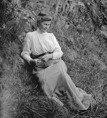 Robina Nicol leaning against bank (cropped)